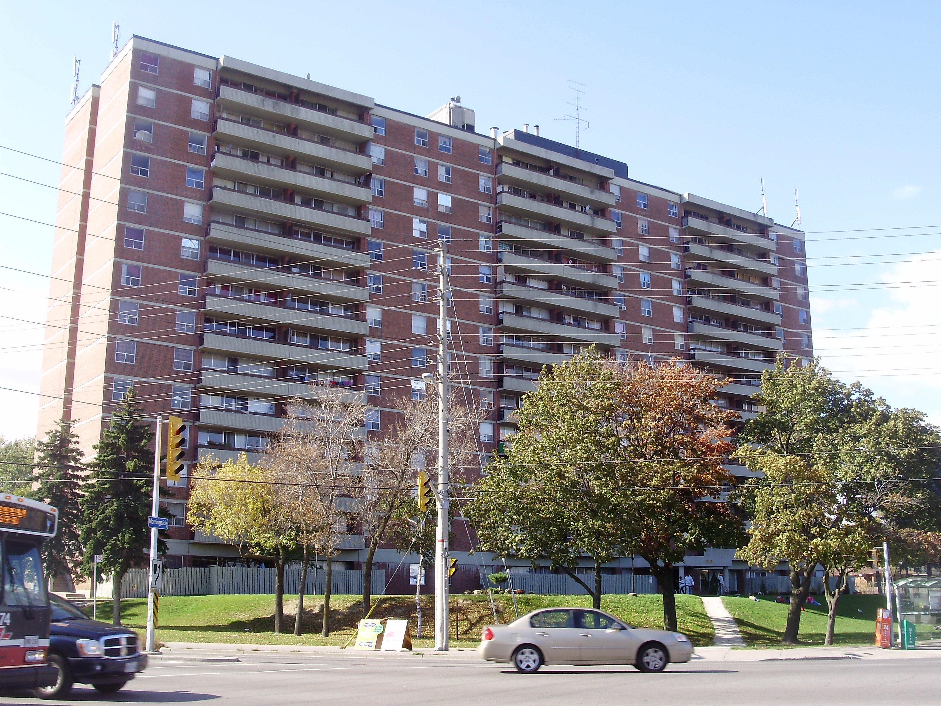 An apartment complex towers over the intersection of Kingston Road and Morningside Avenue in the West Hill neighbourhood of Scarborough, Ontario, Canada.